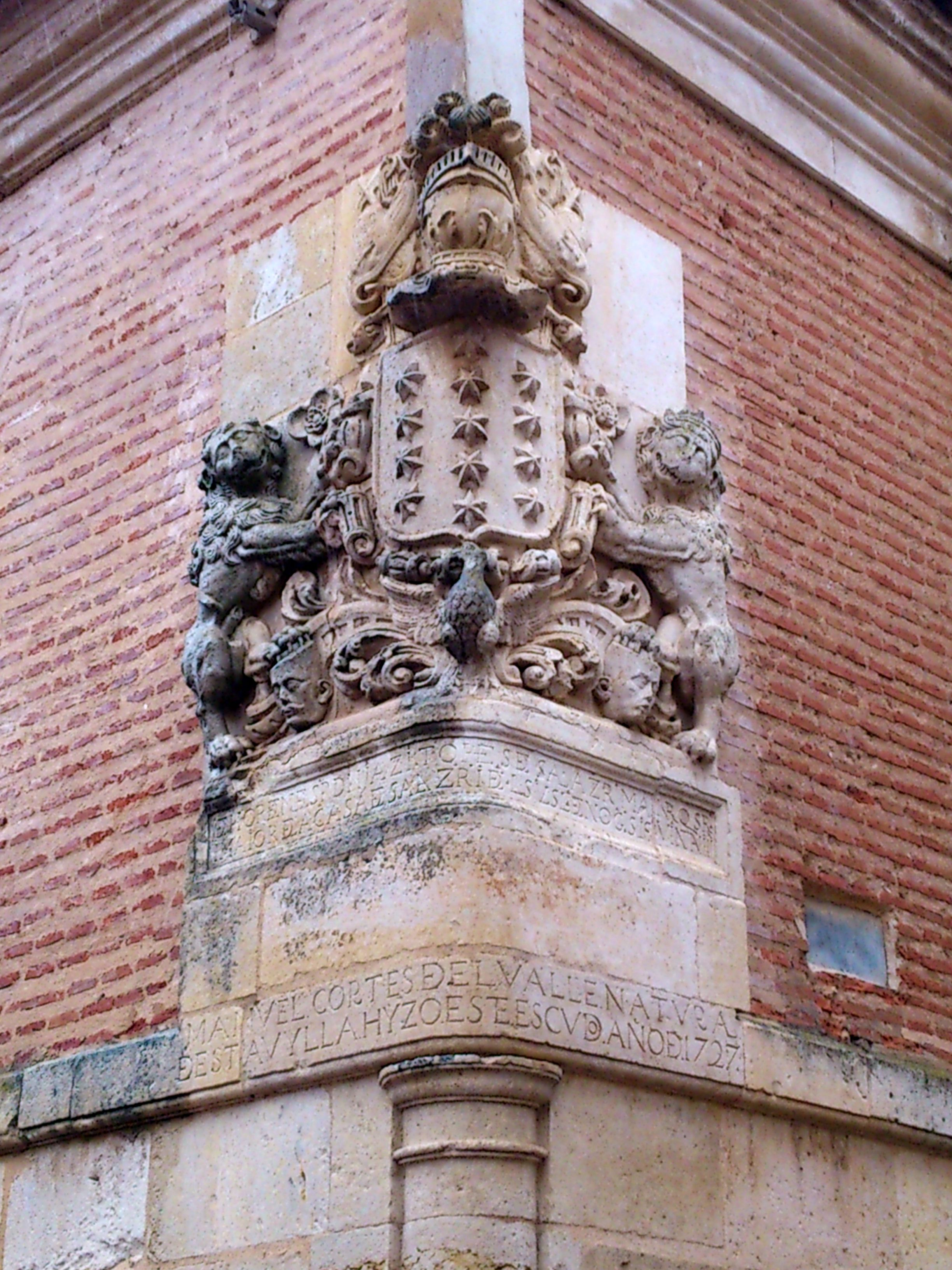 Coat of arms in Herrera de Pisuerga (Palencia, Castile and León).